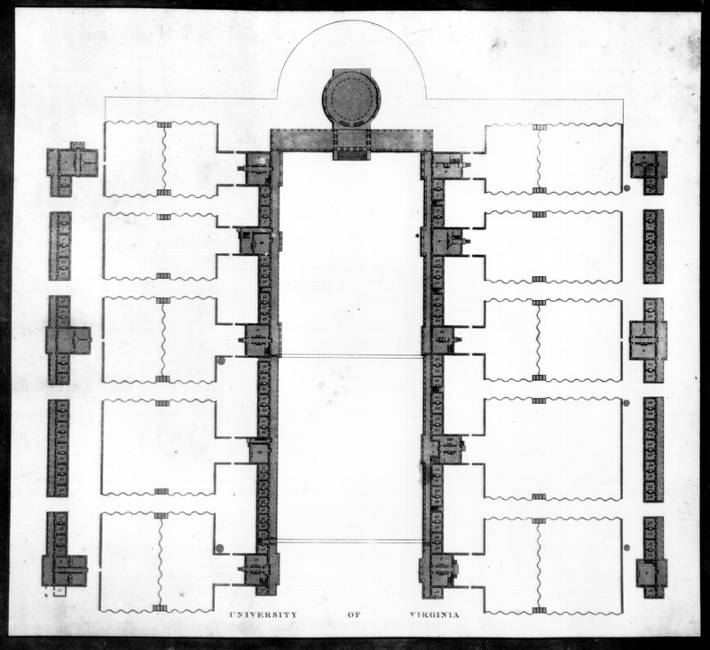 Peter Maverick (instructor, National Academy of Design) engraving of the plan of the University of Virginia as designed by Thomas Jefferson. From the University of Virginia Library Digital Collections.